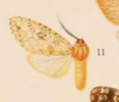 Drawing of male Lophocampa endolepia